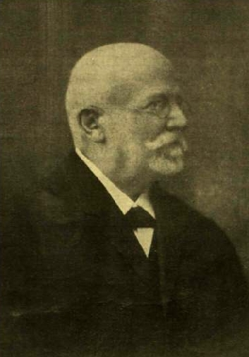 Portrait of Emil Felletár